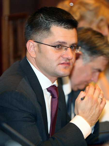 Vuk Jeremić